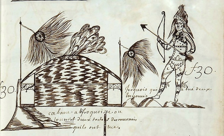 Codex canadensis, p. 20 (cropped and repaired) fig. 30 Iroquois cabin with two heads of enemies that they have killed / Iroquois who has killed two enemies